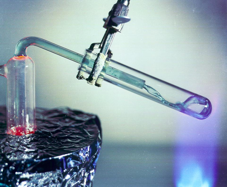 Picture of molten FLiBe salt.